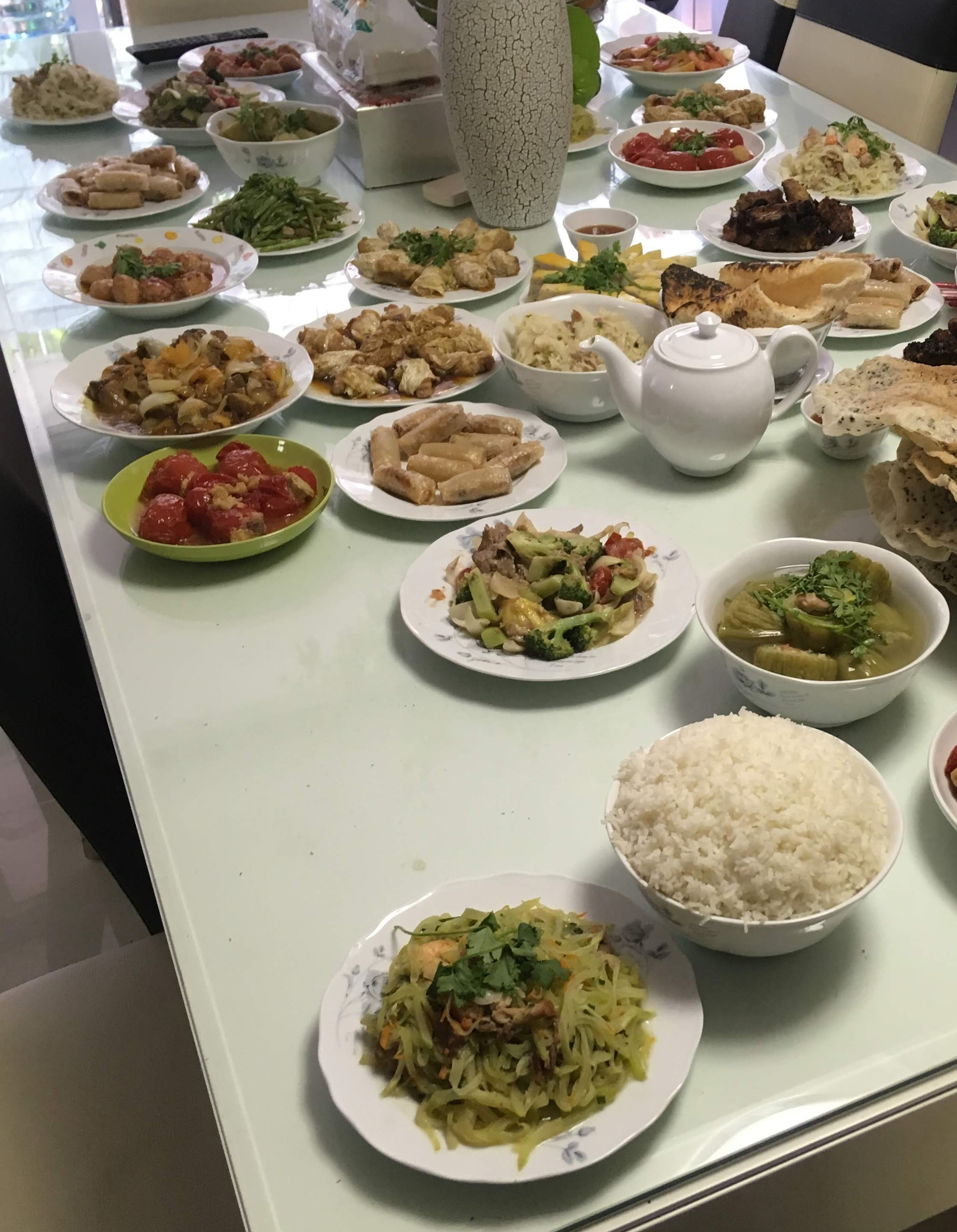 A vietnamese meal in Ho Chi Minh City.